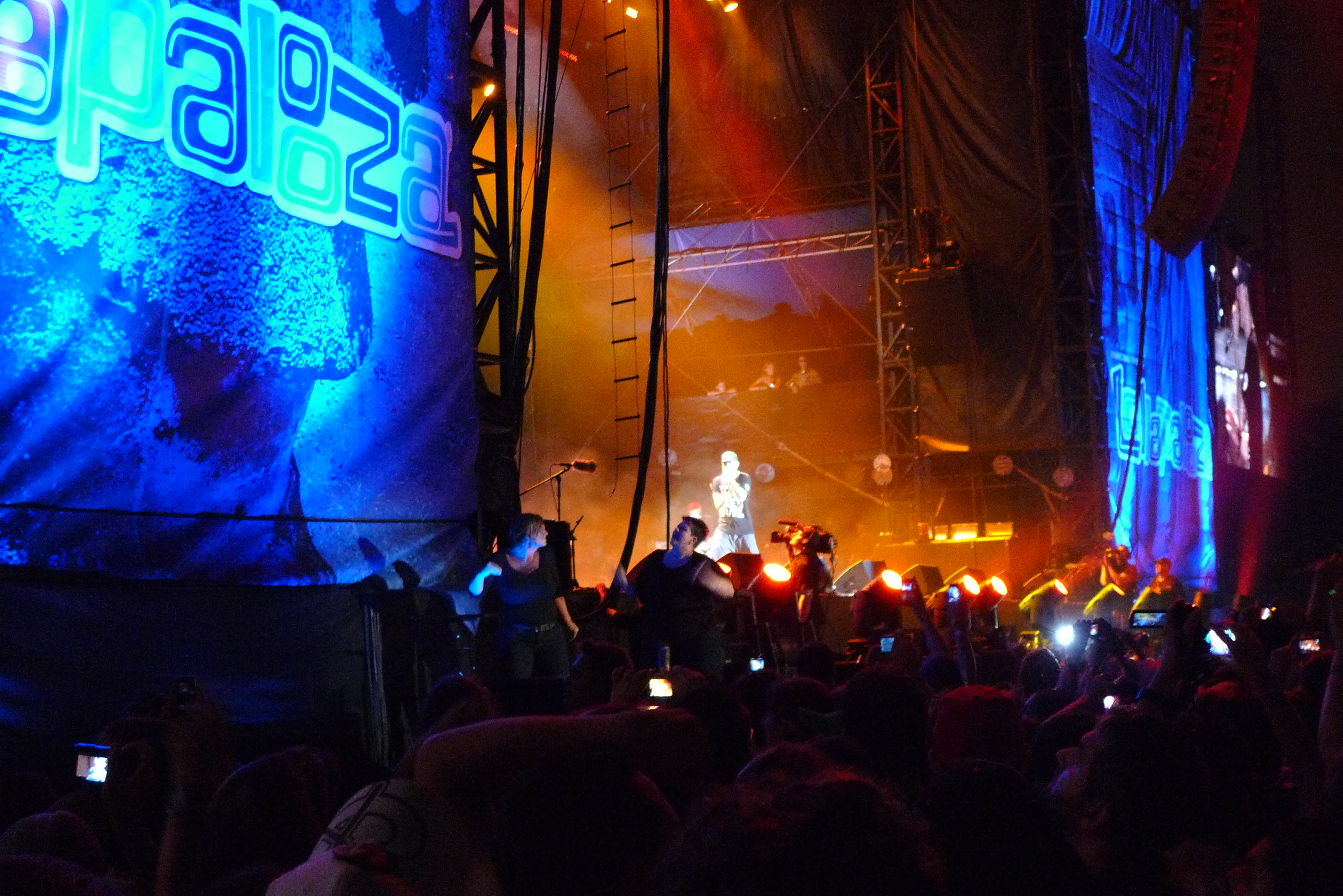 Eminem performing with his band at the 2011 Lollapalooza festival.